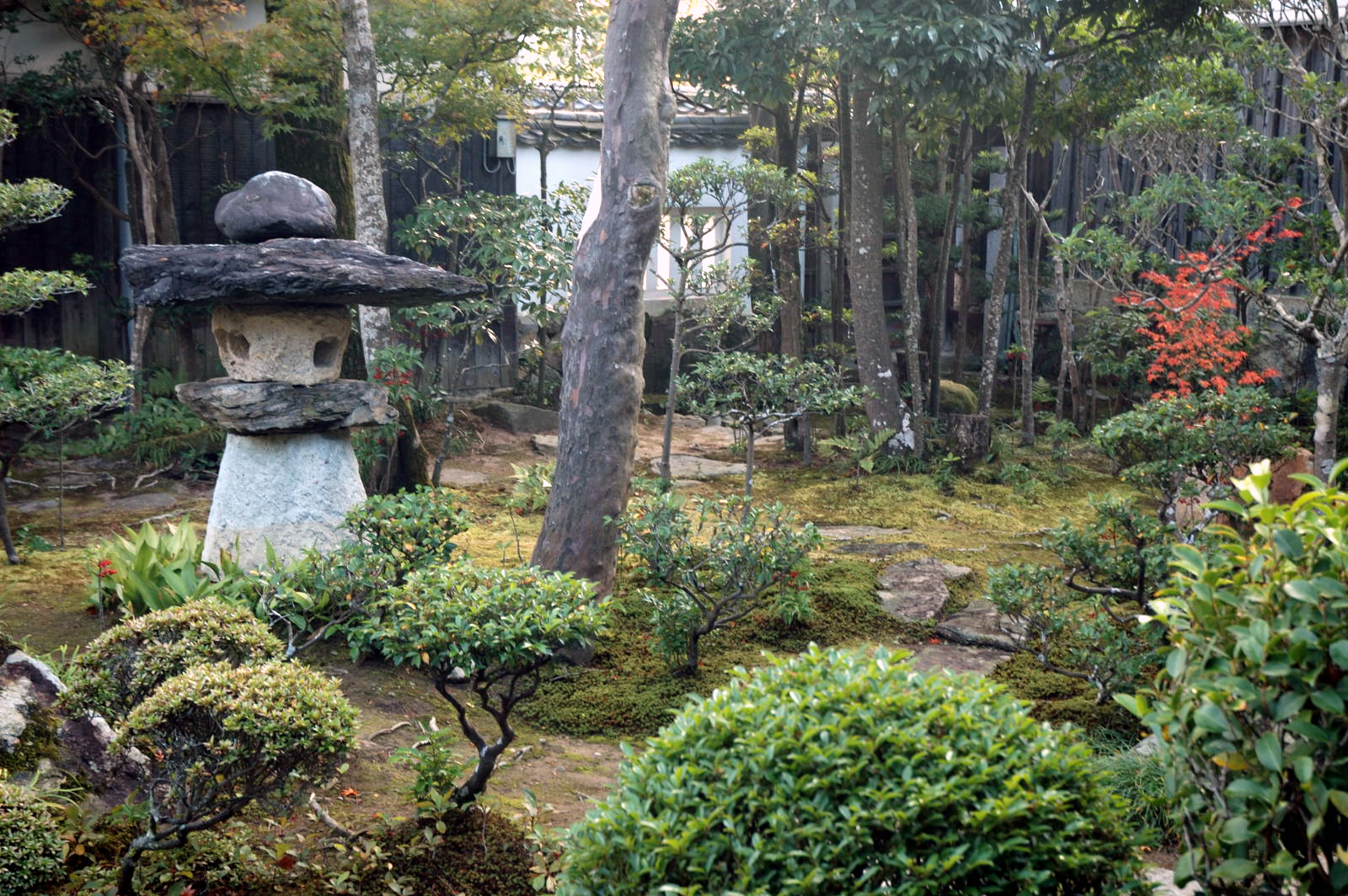 The Nagatomi house main garden